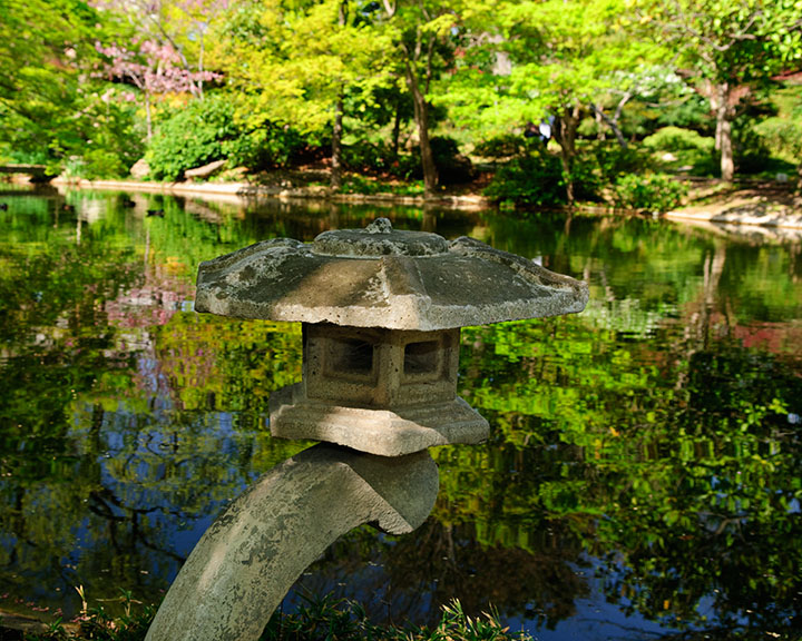 Part of the landscaping in the Japanese Gardens at the Fort Worth Botanic Gardens